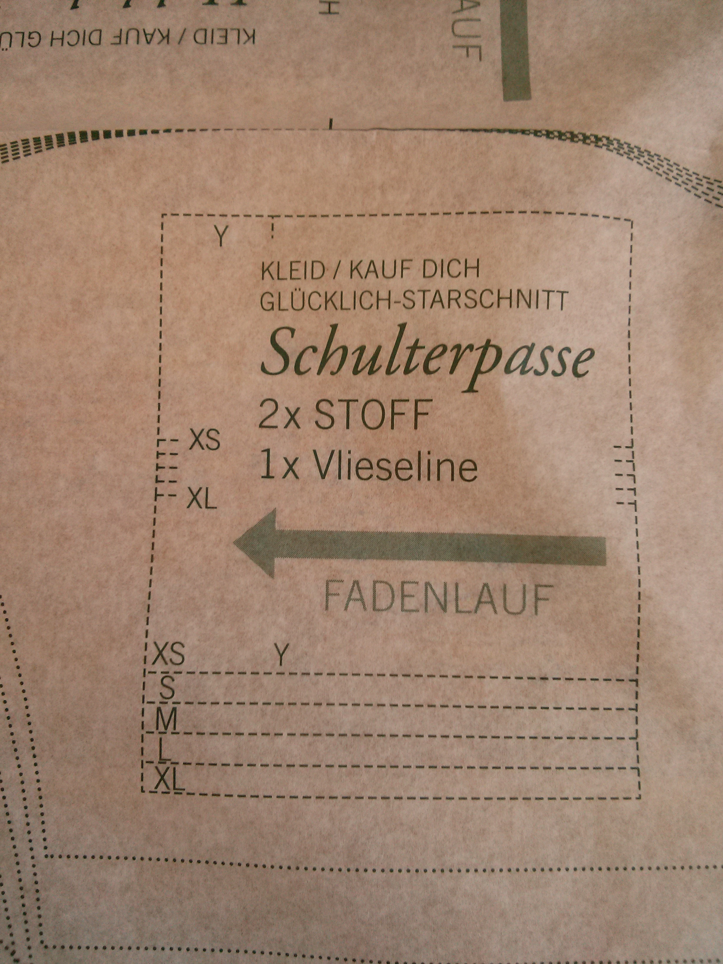 detailed photograph of a sewing pattern